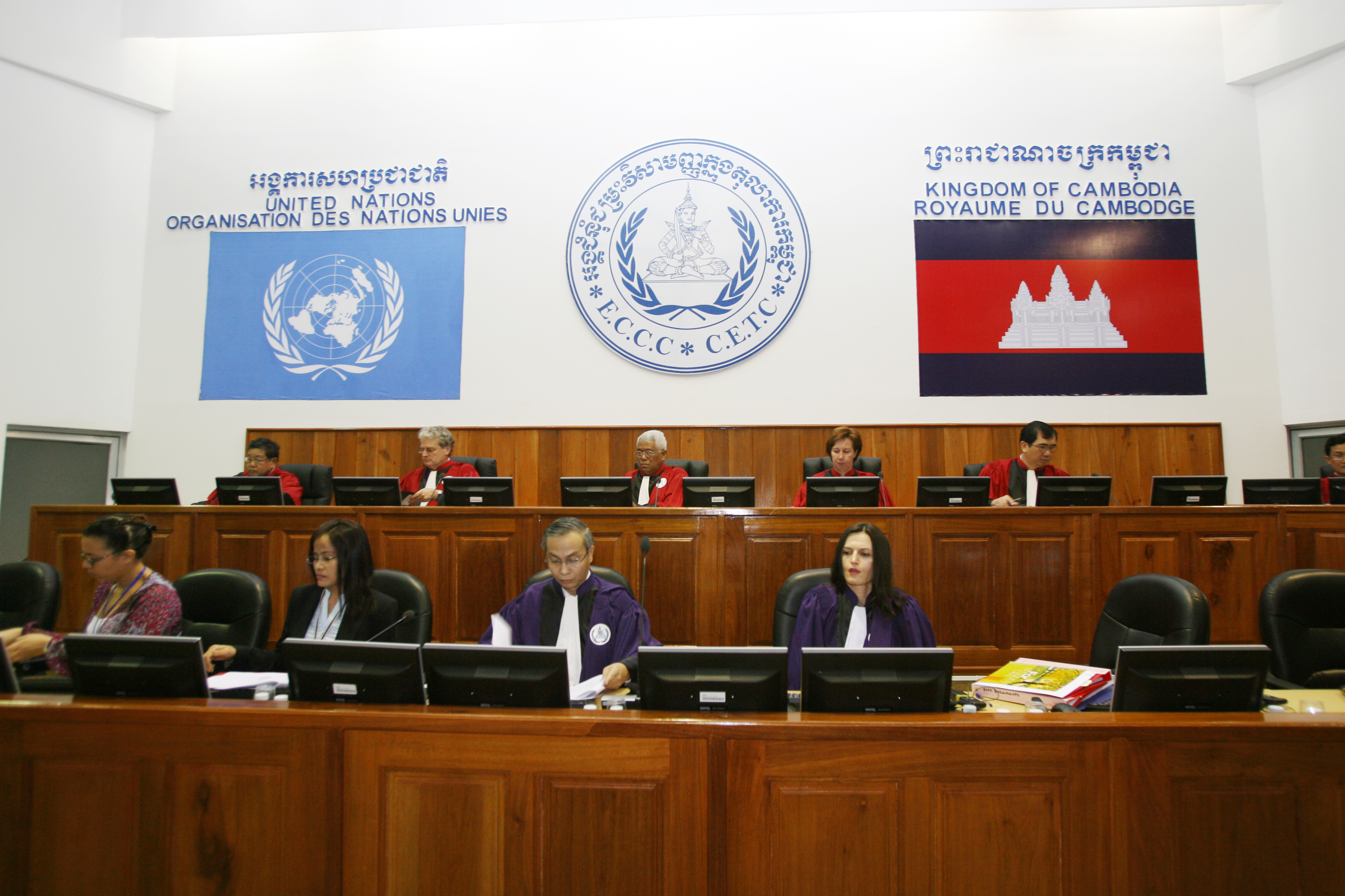 Ieng Sary pre-trial detention hearing on 11 February 2010. The photo can be used freely by media provided that the photo is credited Photo:ECCC Pool/Mak Remissa